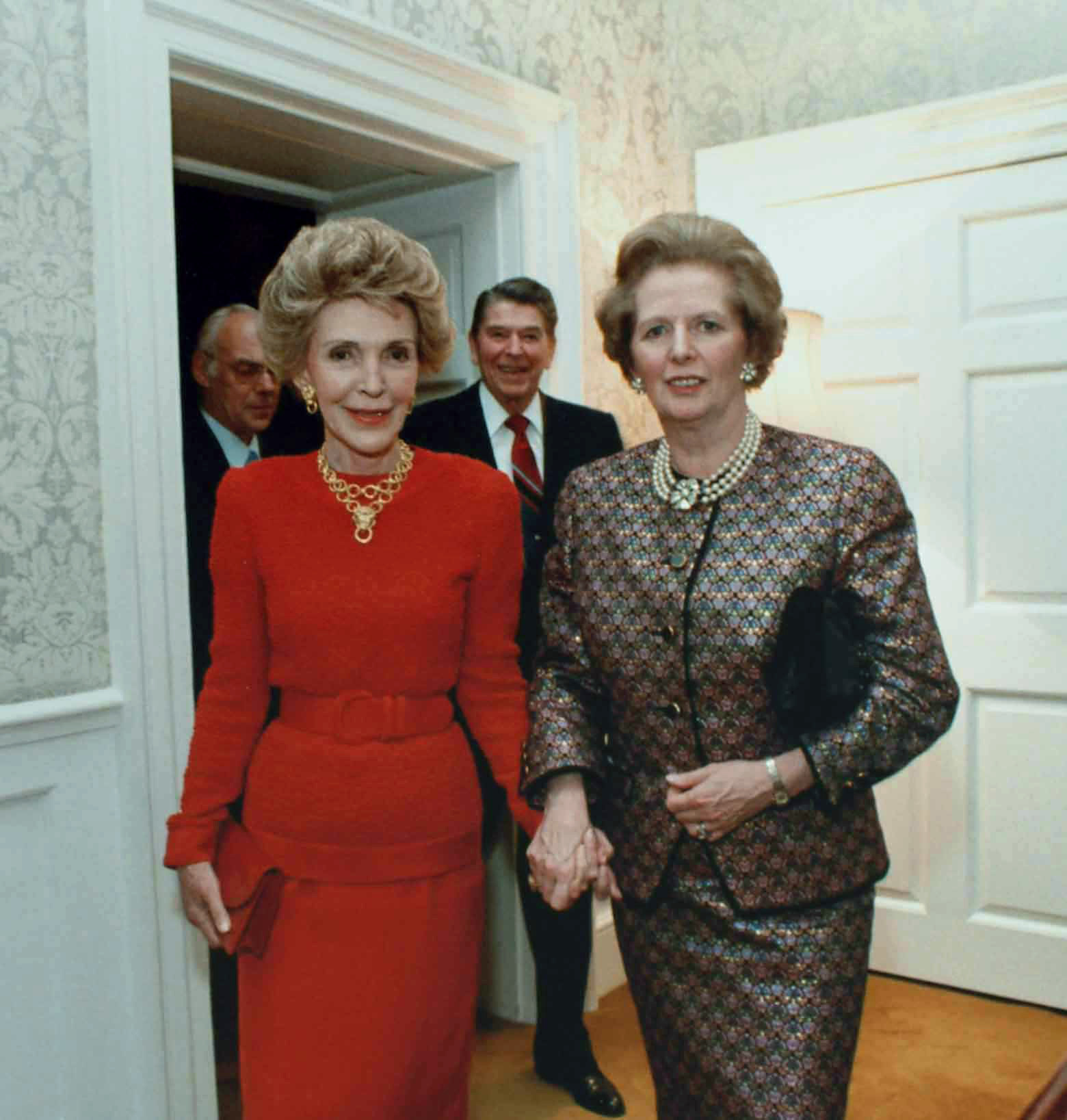 Margaret Thatcher and Nancy Reagan at 10 Downing Street. President Ronald Reagan is behind, in between the two, and Mr. Denis Thatcher is to Mr. Reagan's left.